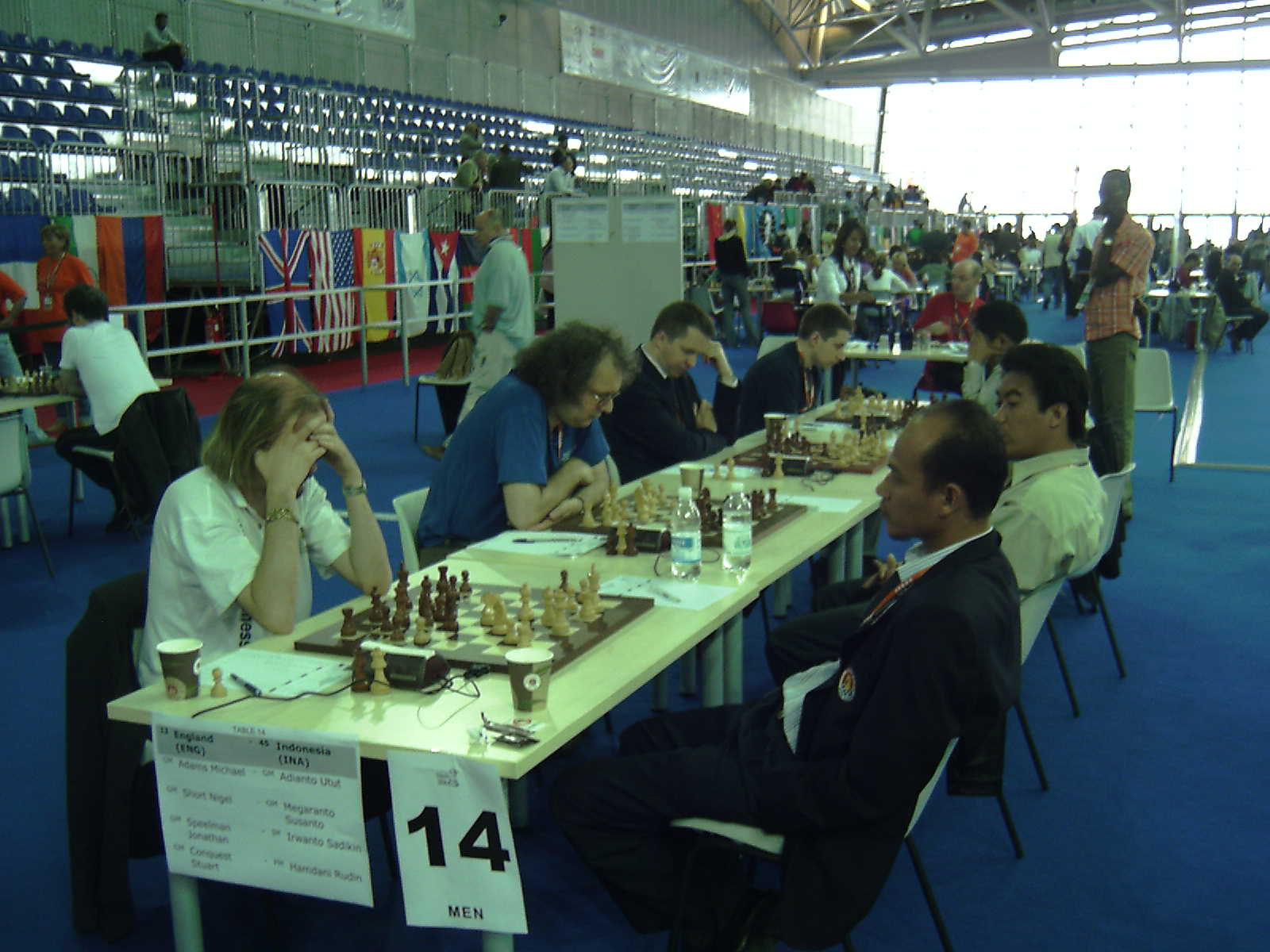 The English team versus the Indonesian team at the Torino 2006 Chess Olympiad the may 23, 2006.